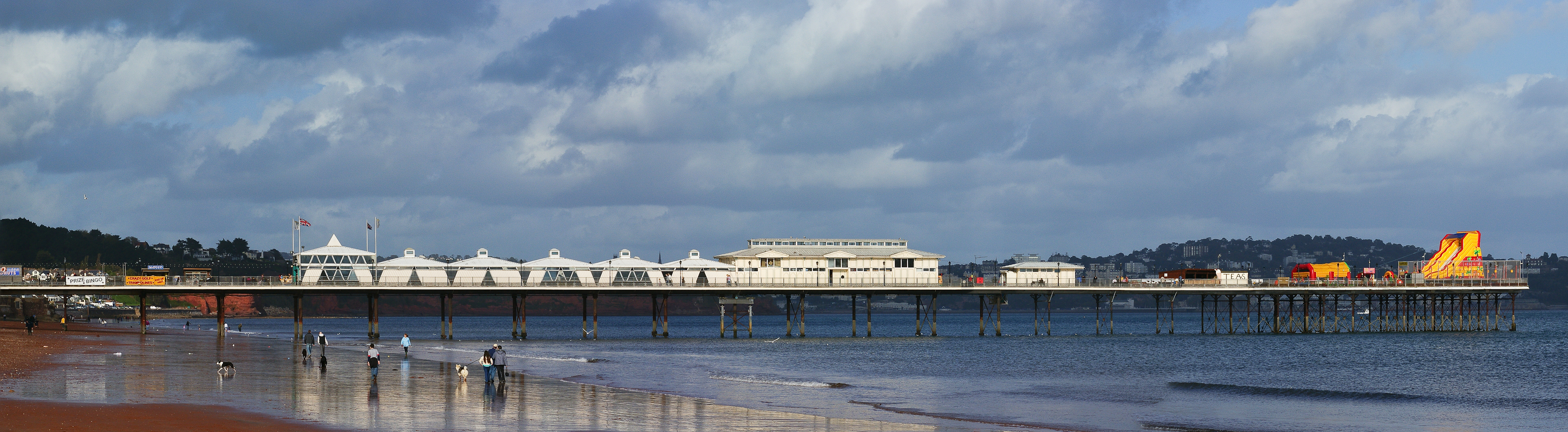 The pier at Paignton in Devon, UK created from three images.